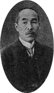 Tatsuzō Sone, Chief of Architecture Department of Koshu Gakko.